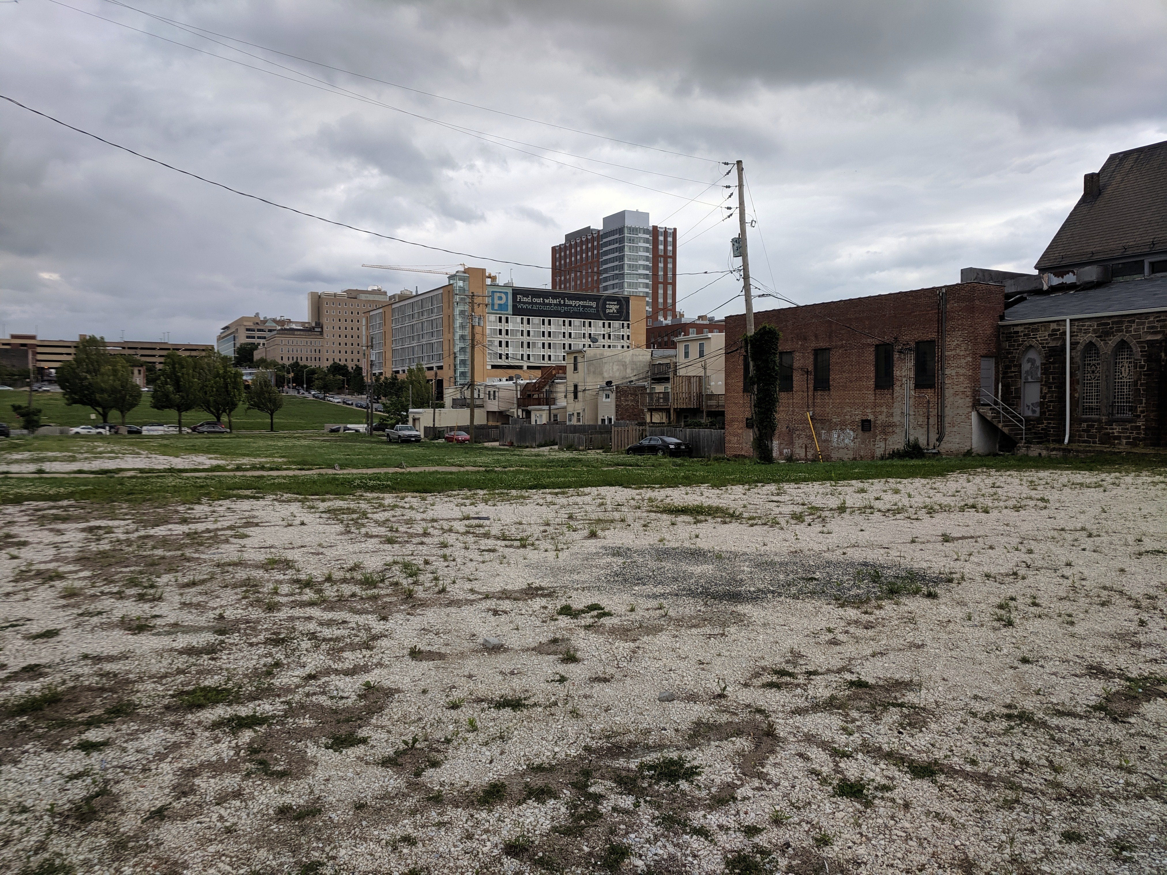 View of Johns Hopkins Hospital from Chase Street. The field was once home to a block of rowhouses, demolished by Johns Hopkins sometime between 2014 and 2019.